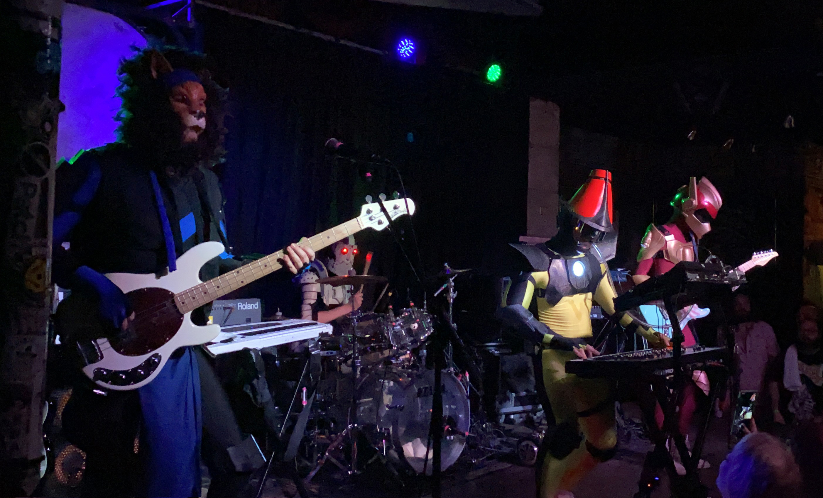 TWRP performing at Crowbar in Ybor City, Tampa, Florida in March 2020. Band members (from left to right) Commander Meouch, Havve Hogan, Doctor Sung, and Lord Phobos all visible.